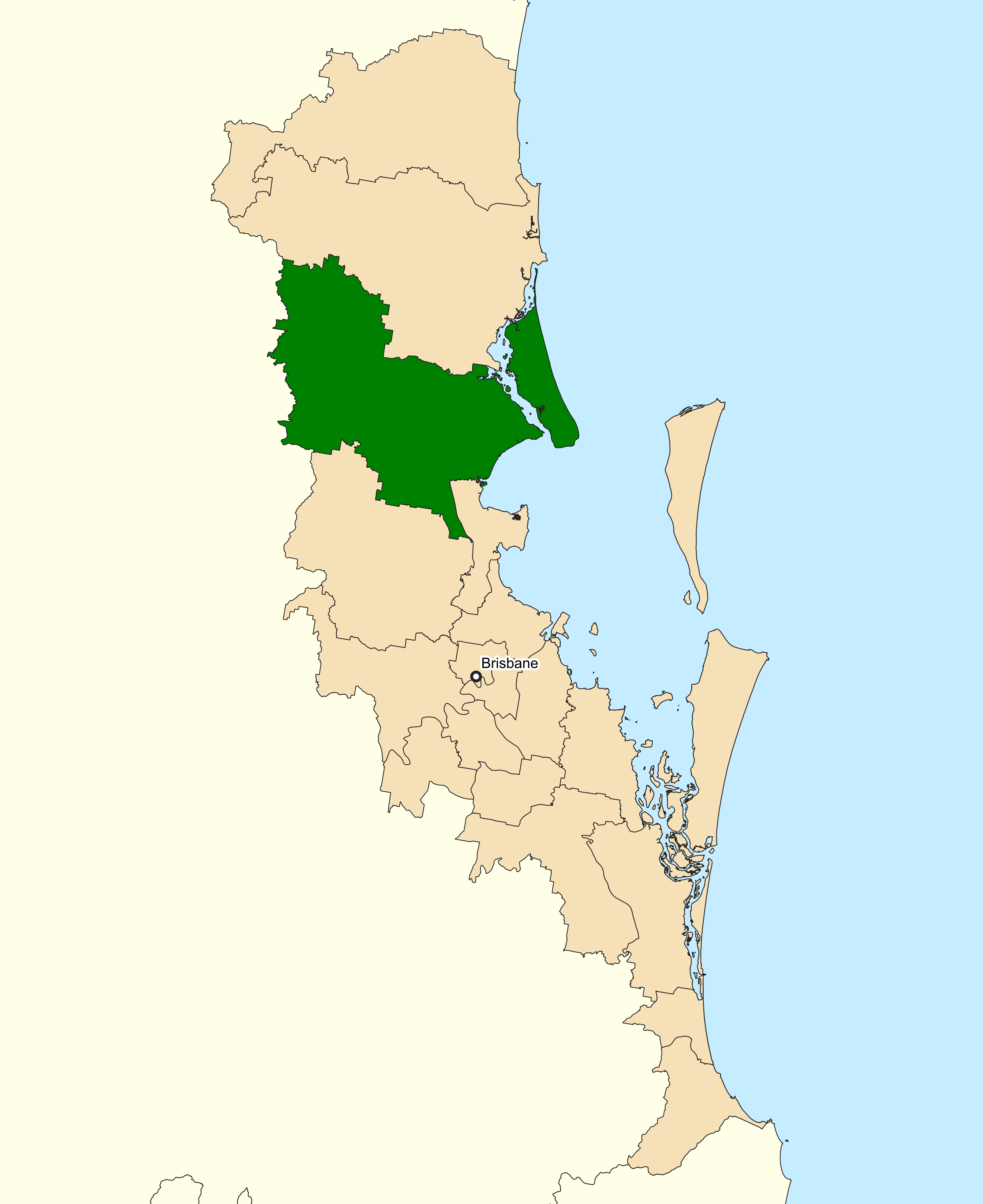 Location of the Australian federal electoral division of Longman (dark green) in Greater Brisbane, Queensland as of the 2019 Australian federal election. Incorporates or developed using Administrative Boundaries ©PSMA Australia Limited licensed by the Commonwealth of Australia under Creative Commons Attribution 4.0 International licence (CC BY 4.0).